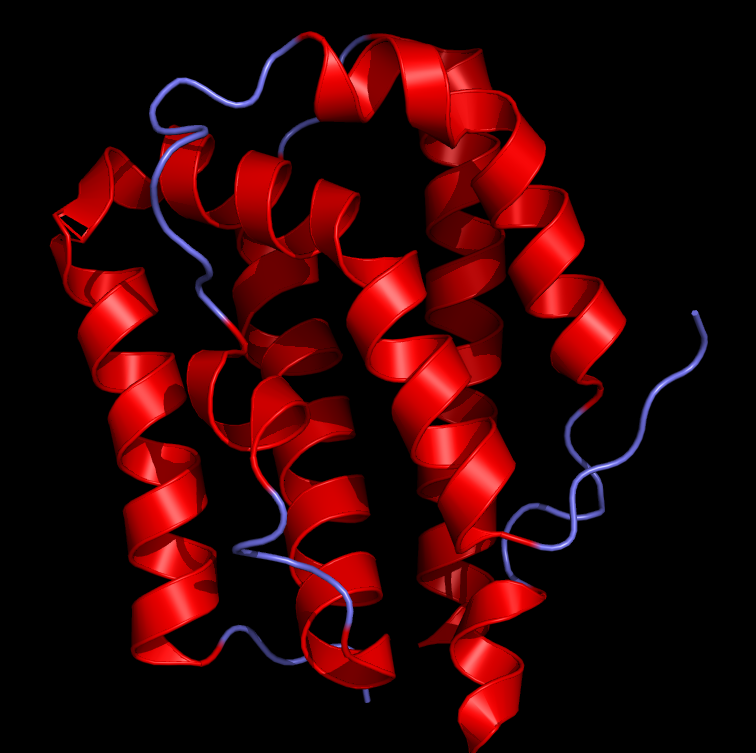 This is the crystal structure to human Interleukin 19. I accessed the data from the Protein Data Bank (PDB: 1N1F) and rendered it using Pymol. For the original data, see: Chang, C., Magracheva, E., Kozlov, S., Fong, S., Tobin, G., Kotenko, S., Wlodawer, A., Zdanov, A. Crystal structure of interleukin-19 defines a new subfamily of helical cytokines J.Biol.Chem. v278 pp.3308-3313 , 2003